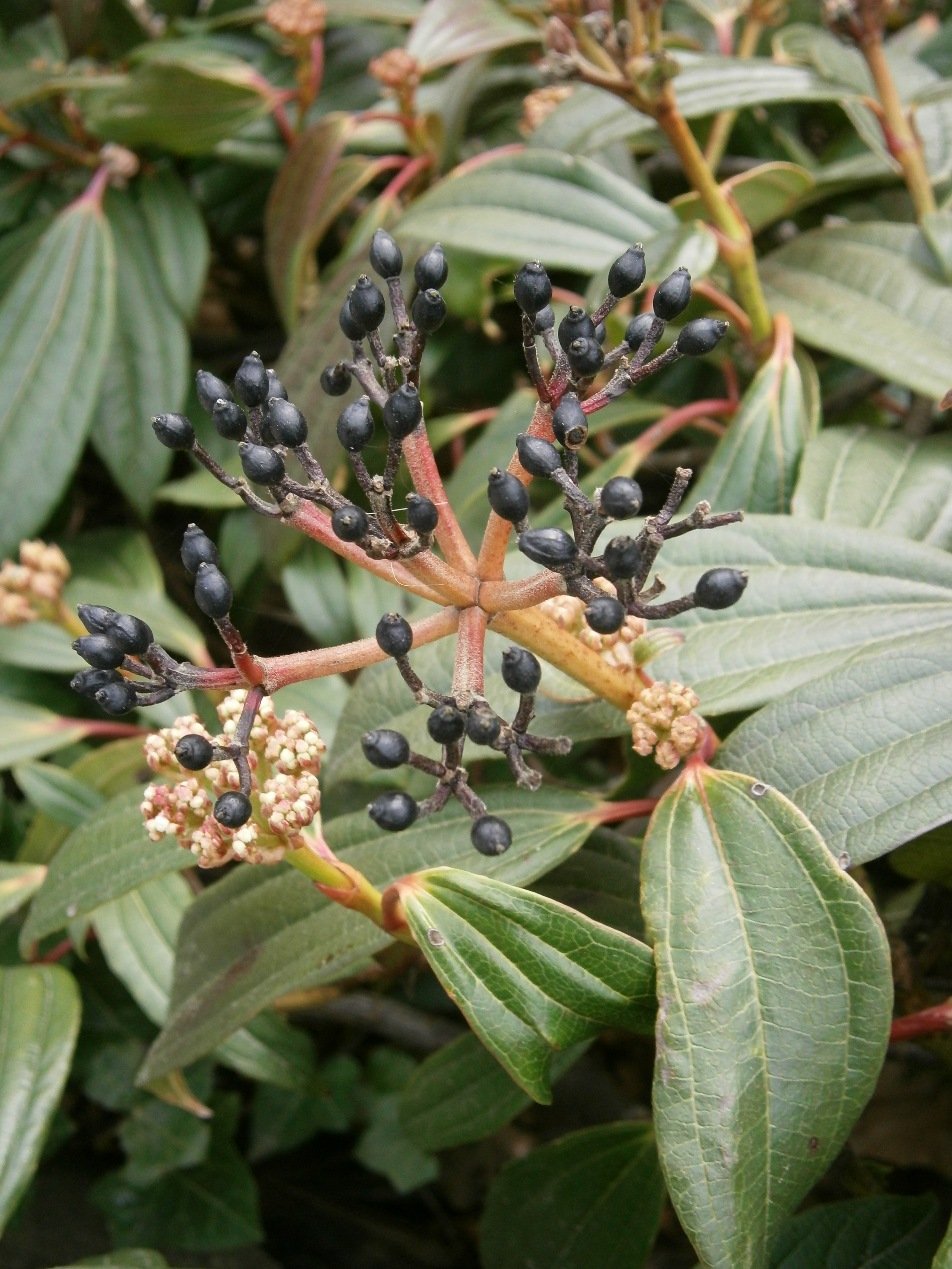 Viburnum davidii